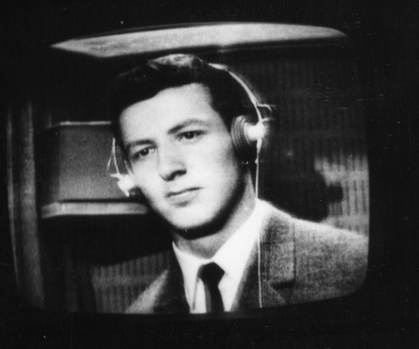 Austrian quiz candidate (Robert Schediwy) in legendary tv quiz 21